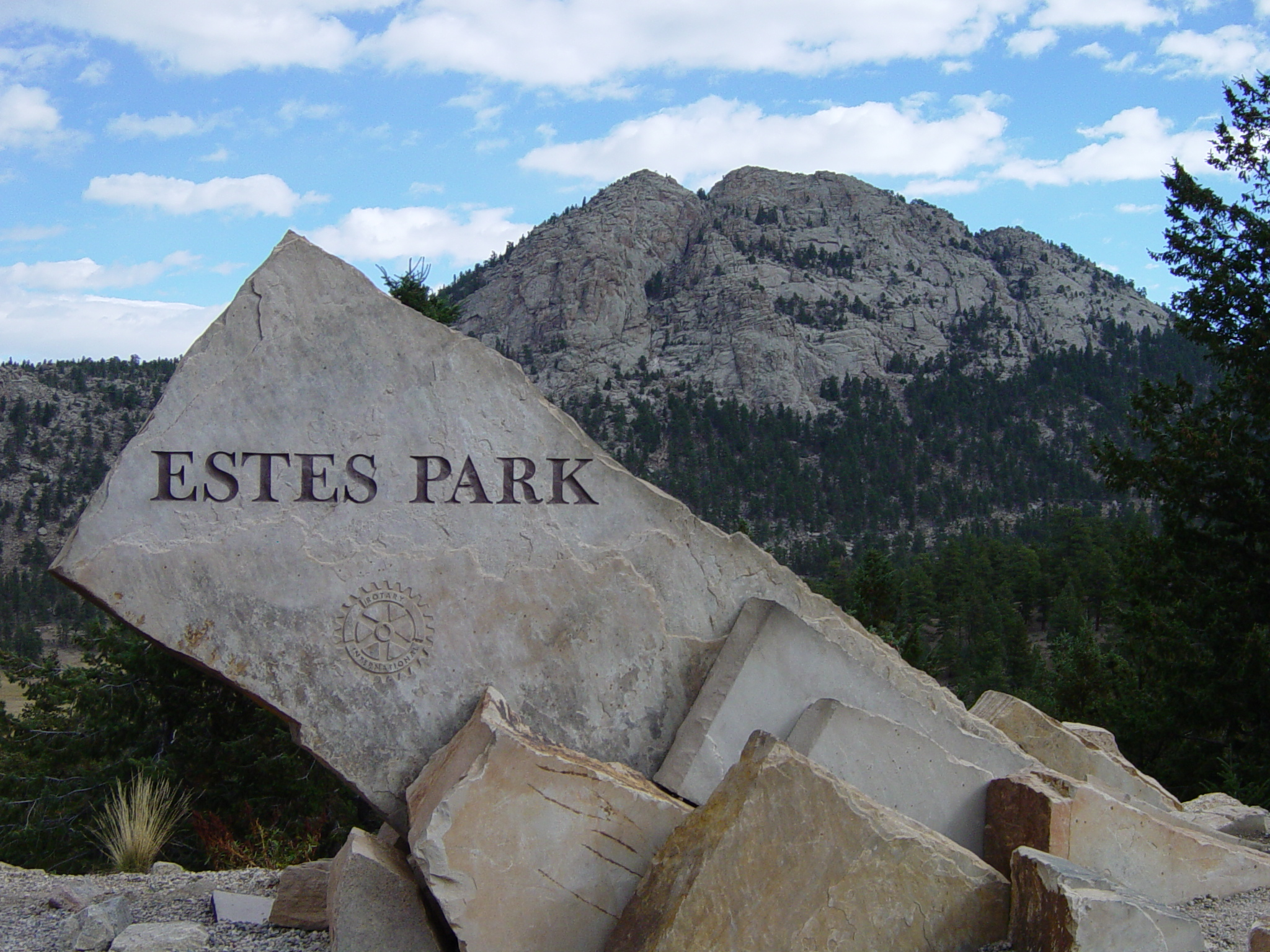 I took this photo while on vacation in Colorado. You can find this "sign" of sorts on US-36 when approaching Estes Park, Colorado from the east. (You can see a satellite photo of its location here.)